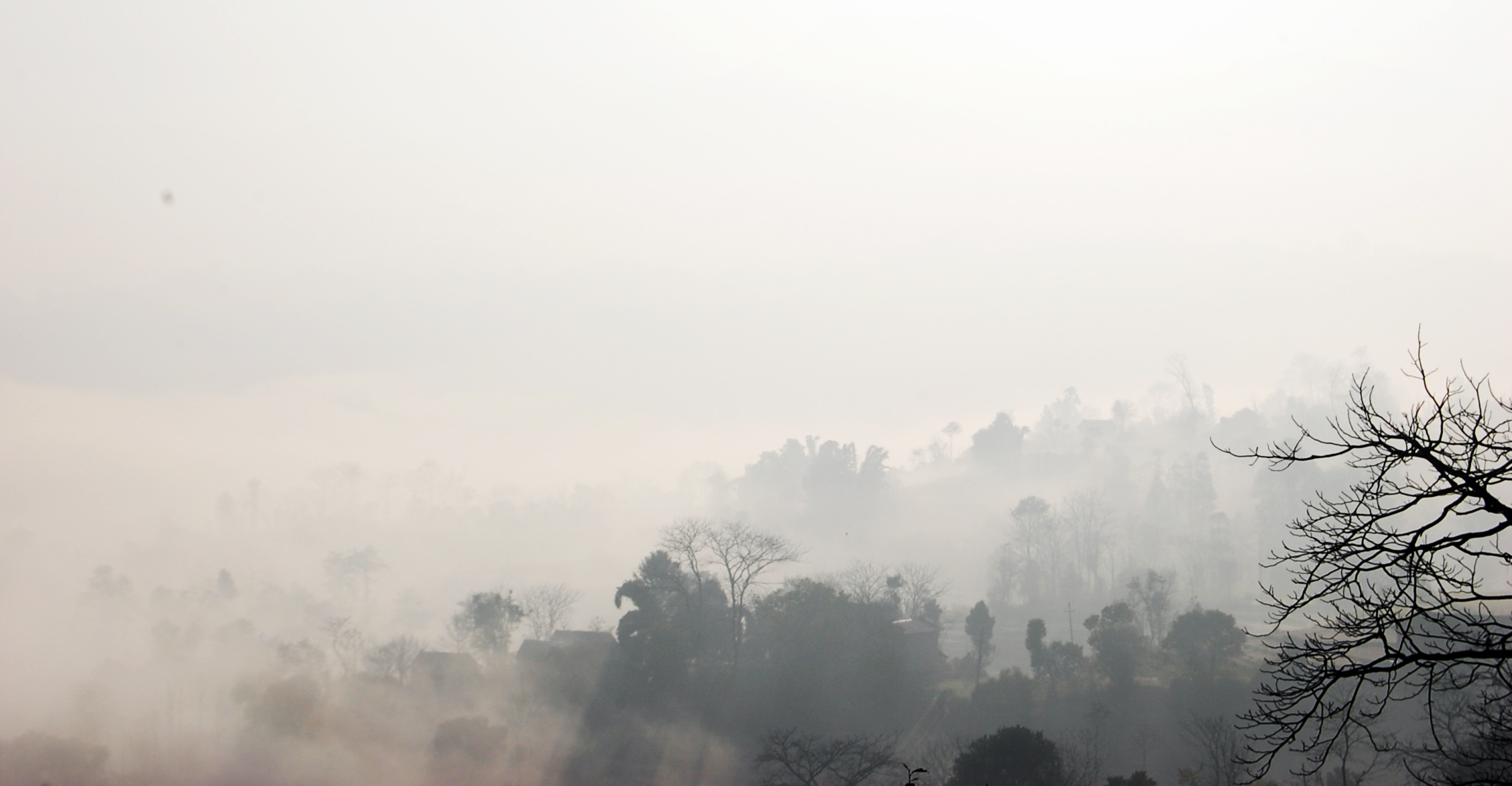 This is Chalnakhel in winter season which is on the way to Dasinkali temple of Kathmandu valley of Nepal.